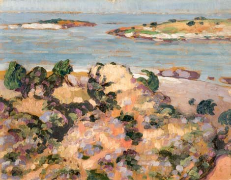 Shore of Saaremaa. Oil on cardboard. 40 x 50.8 cm